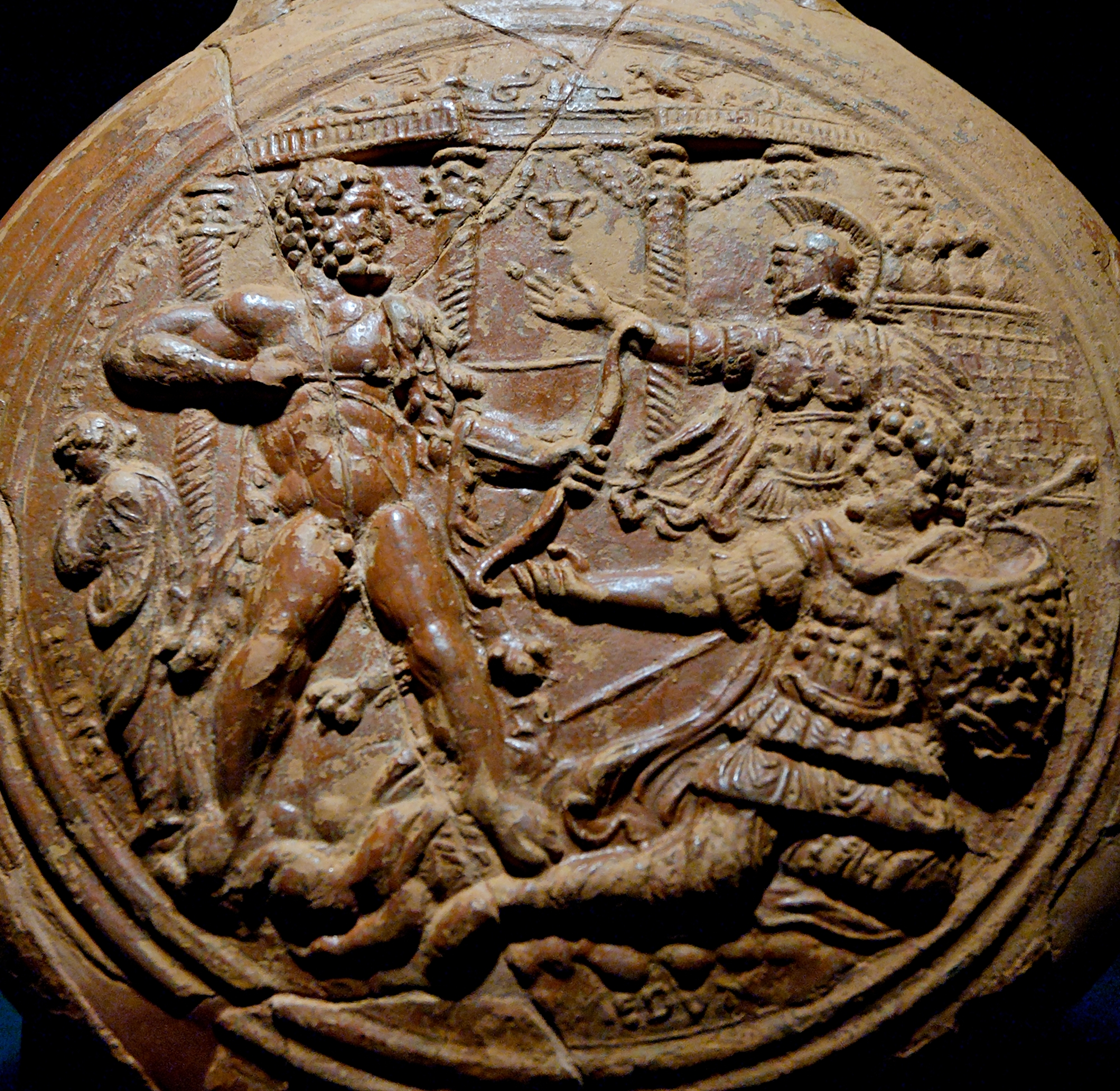 Herakles (on the left) about to kill Laomedon, king of Troy (on the right). Behind Herakles stands Hesione, raising her right hand to her chin in sign of melancholy. Side A from a terra sigillata flask by the workkshop of Felix (Southern Gaul), late 1st–early 2nd century CE. From the necropolis of Lugone in Salò. Stored in the Museo Civico Archeologico della Valle Sabbia in Gavardo (Brescia).